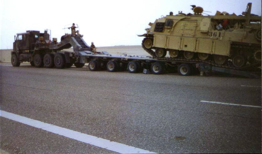 U.S. Army M1070 loading M88A2 "Hercules" in southern Iraq